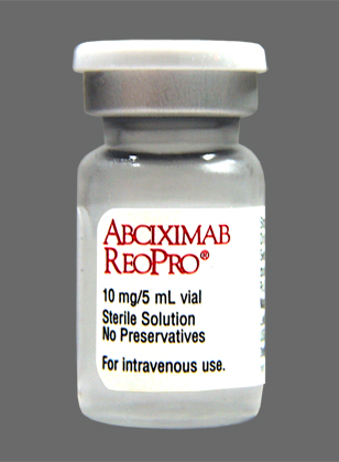 vial with abciximab (reopro)